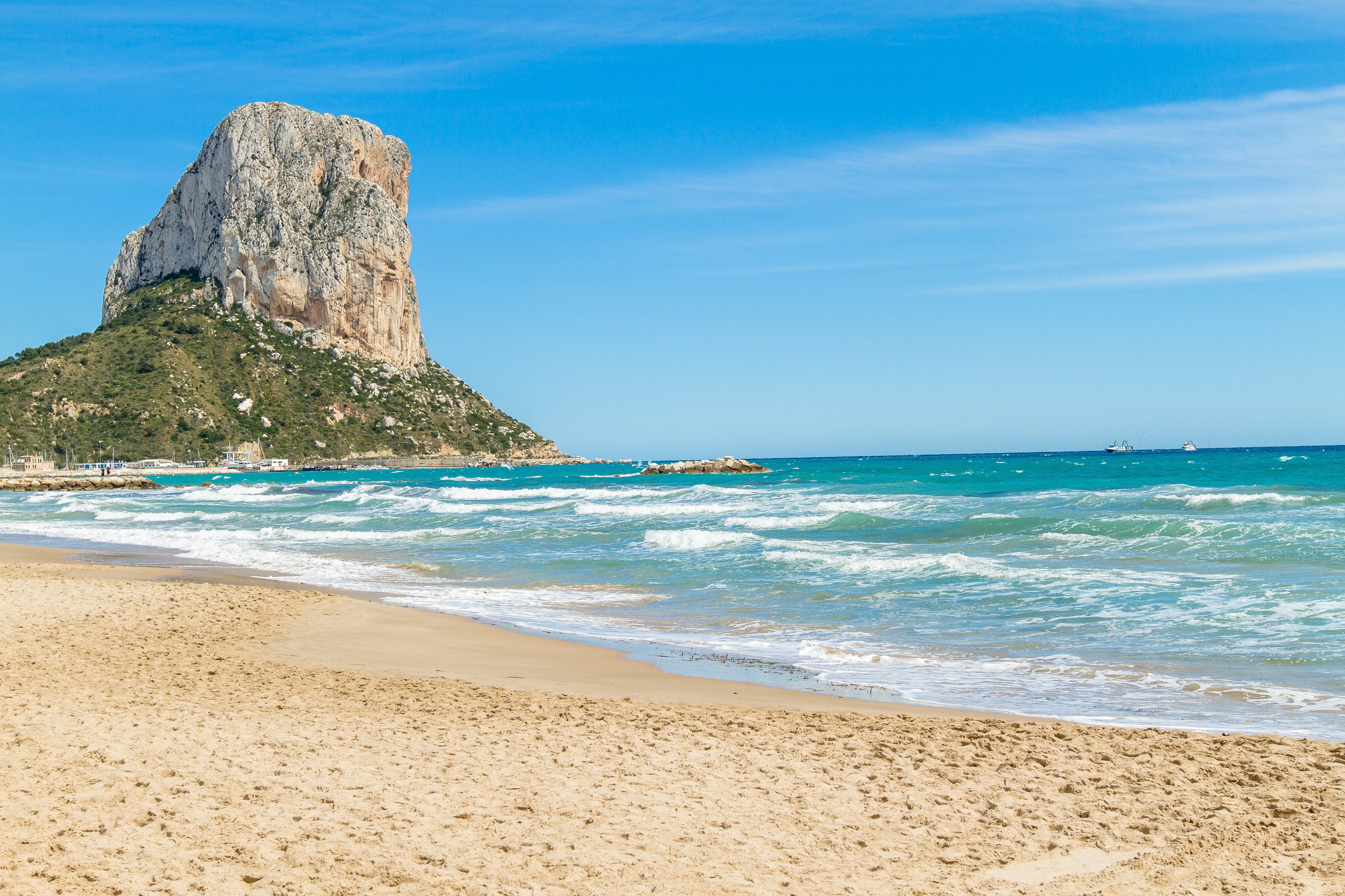 Peñón de Ifach - Calpe - Spain